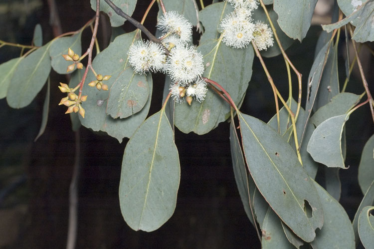 Flower buds and flowers of Eucalyptus polyanthemos subsp. polyanthemos